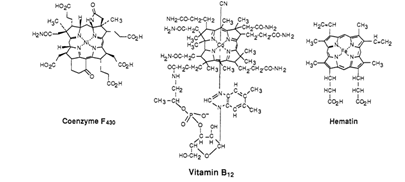 Structure of macromolecules used in dehalogenation reaction